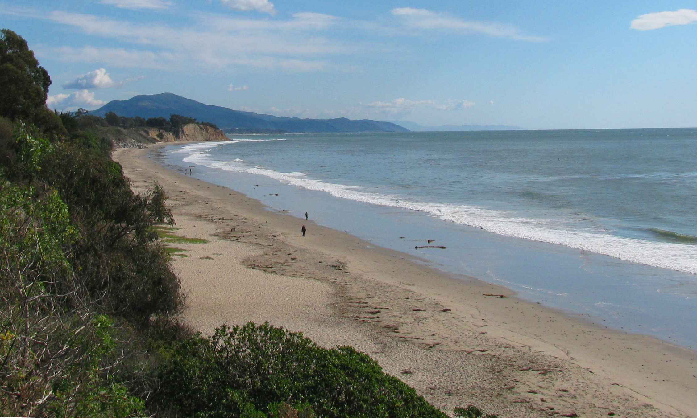 Summerland beach, California, 110 years after the oil field.